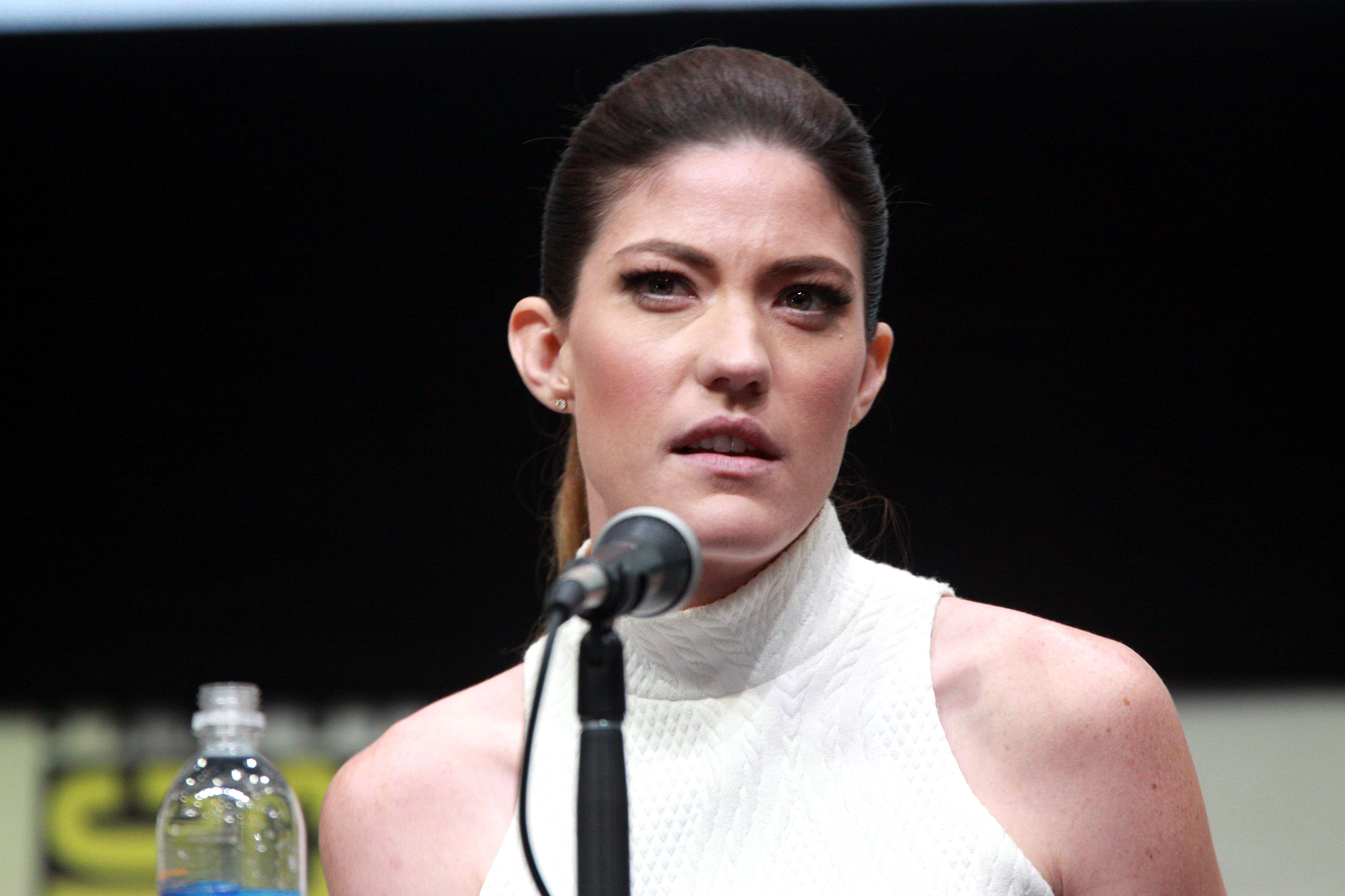 Jennifer Carpenter speaking at the 2013 San Diego Comic Con International, for "Dexter", at the San Diego Convention Center in San Diego, California.